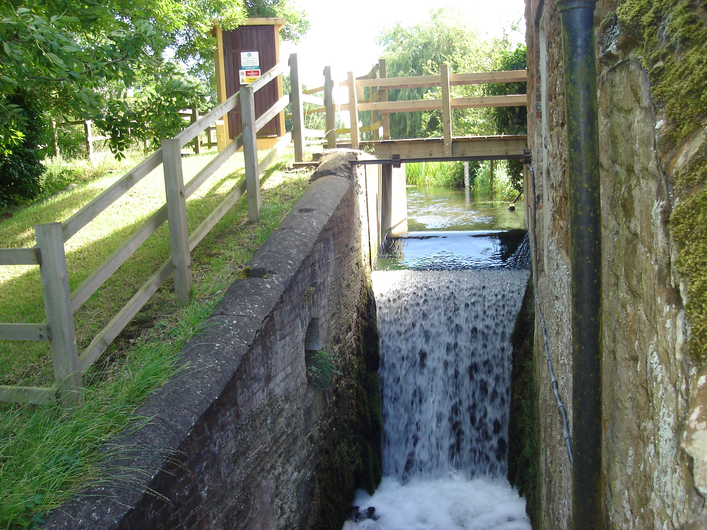 Picture of the River Heacham at Caley Mill, Heacham, Norfolk